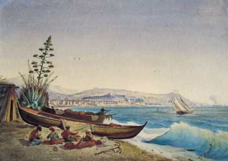 Painting (1875) of "La baie des anges" of Nice by Nice-born Italian painter Vincent fossat (1822/1897)